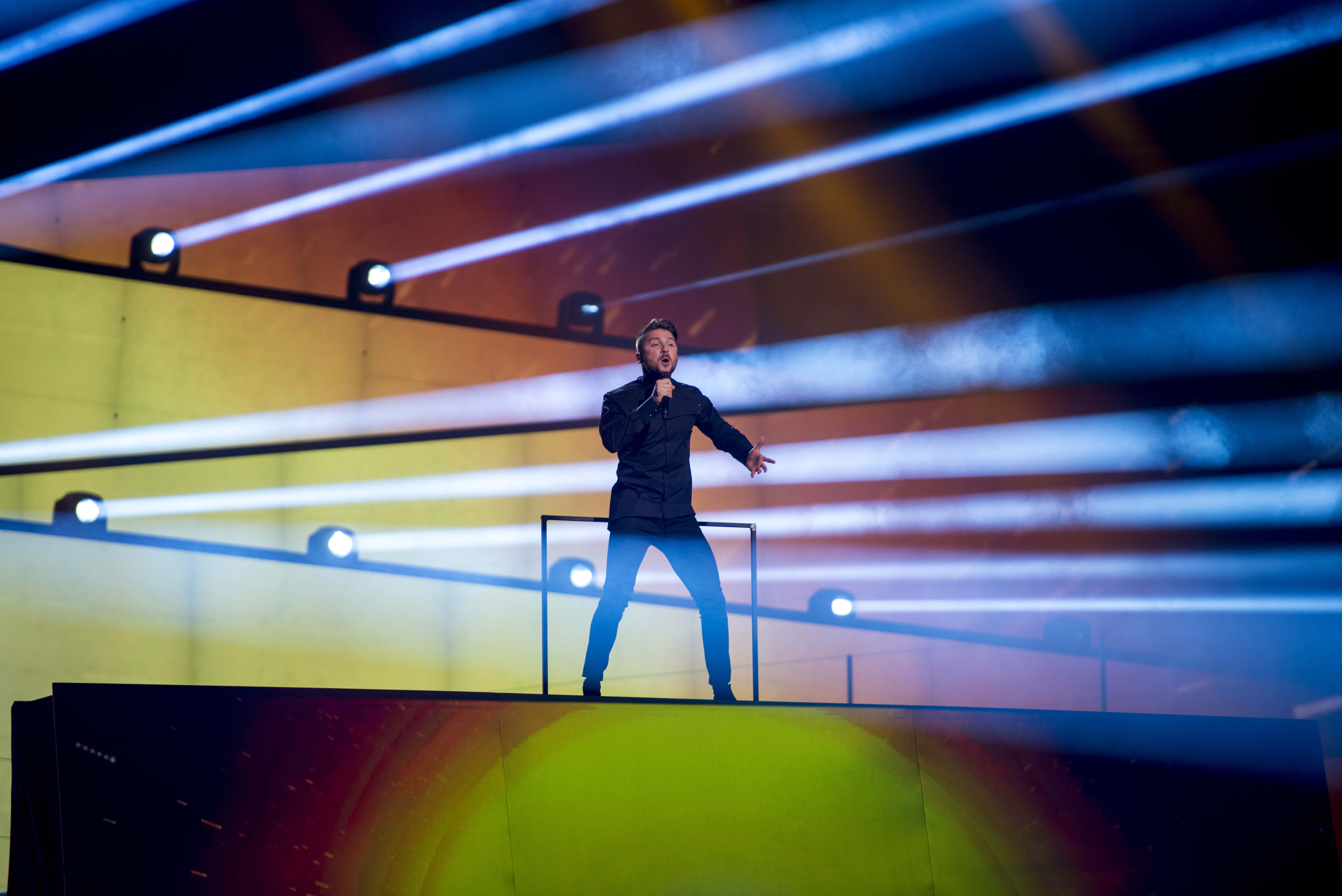 Sergey Lazarev representing Russia with the song "You Are the Only One" during a rehearsal before the first semi final of the Eurovision Song Contest 2016 in Stockholm. (Help translate this text)